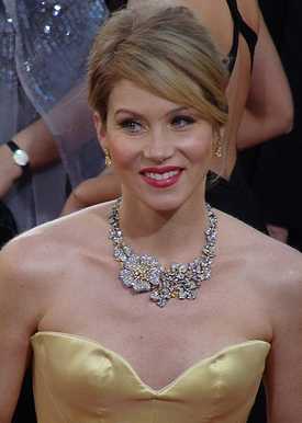 Christina Applegate at the 66th Golden Globes in January 2009.